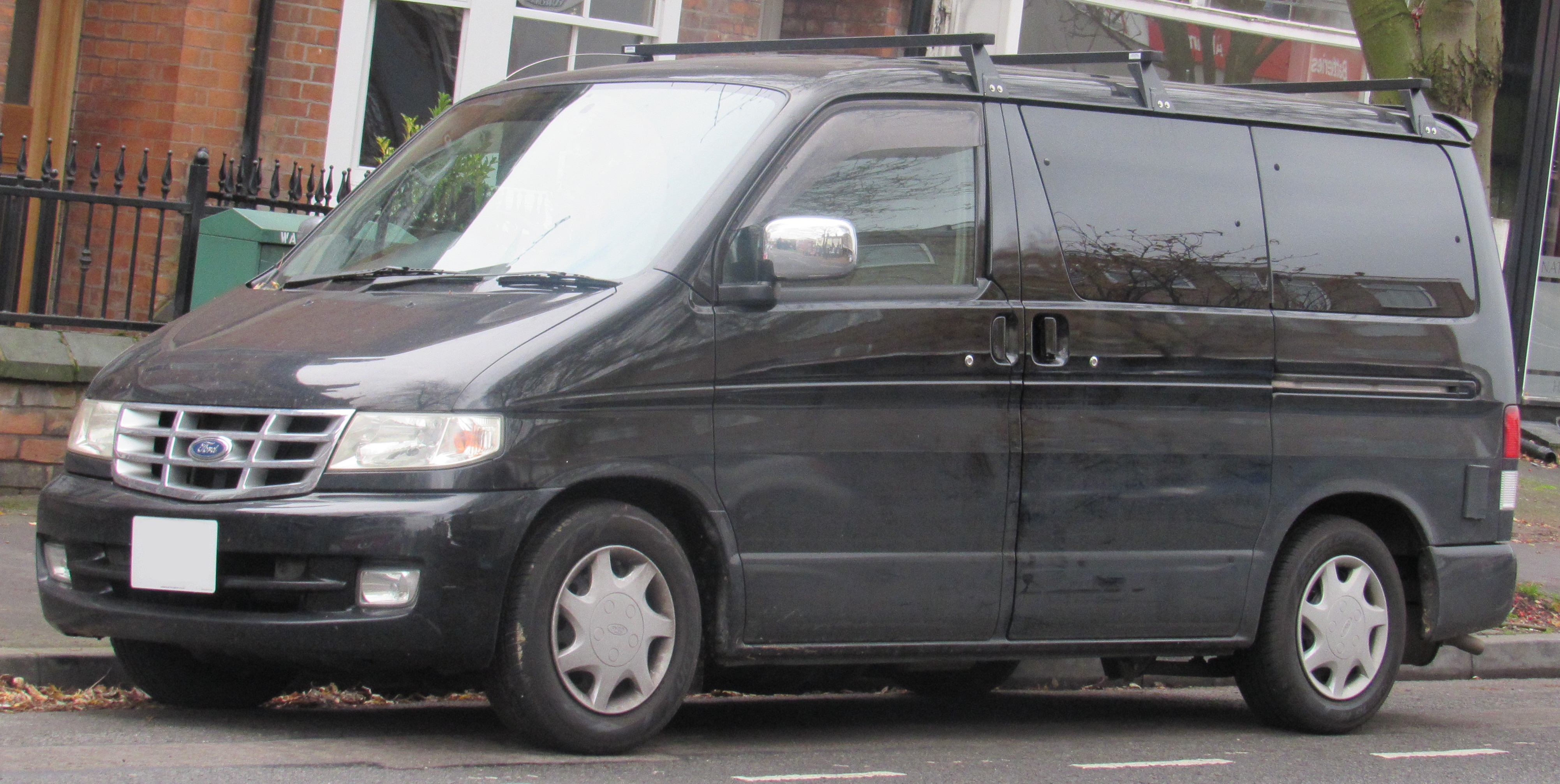 2001 Ford Freda 2.0 Front Taken in Warwick